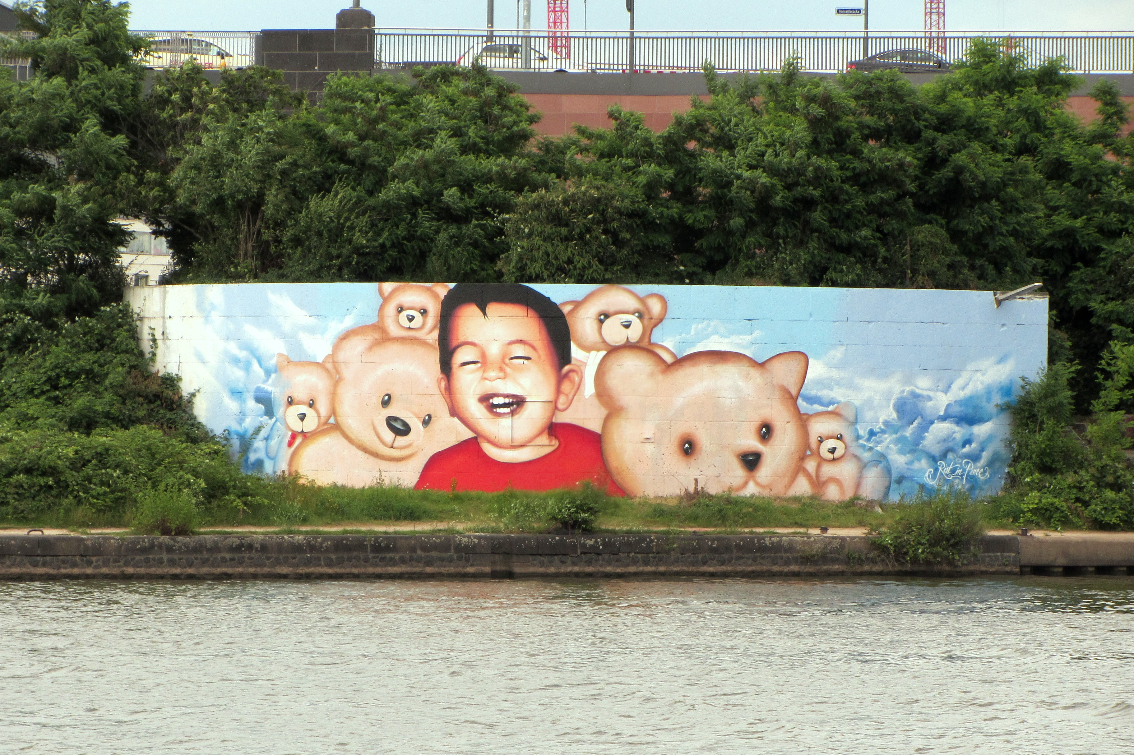 Second version of Alan Kurdi Graffiti. The first version was smeared with right populist phrases which the artists covered with the second version.